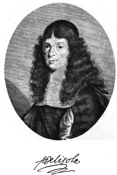 Franz Paul Lisola